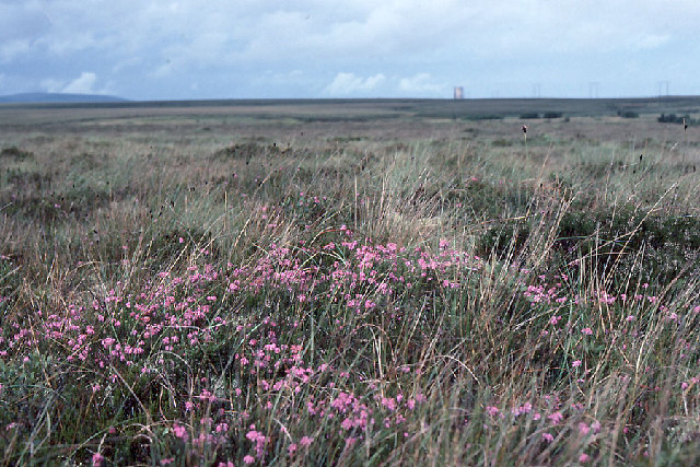 Moorland near Bellacorick, north Mayo. The cooling tower of the peat-fuelled power station is on the horizon; in the foreground Mackay's heath (Erica mackaiana).